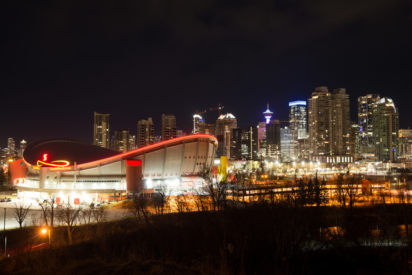 Scotiabank Saddledome in downtown Calgary at night.